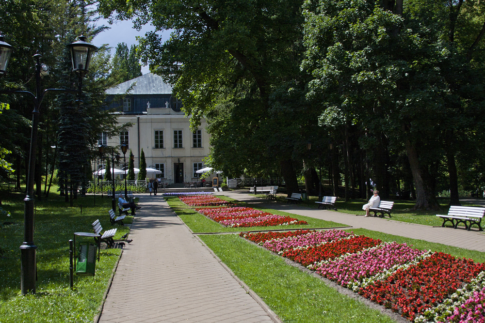 Pałac w Nałęczowie